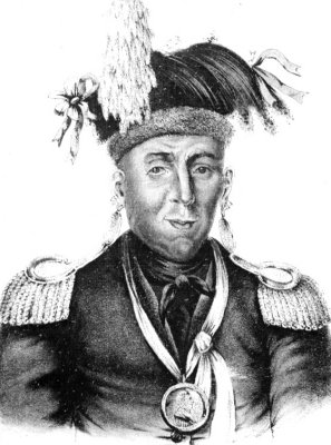 Potawatomi Chief Wabaunsee (Little Dawn), c. en:1815. Source: Indian chiefs and leaders.